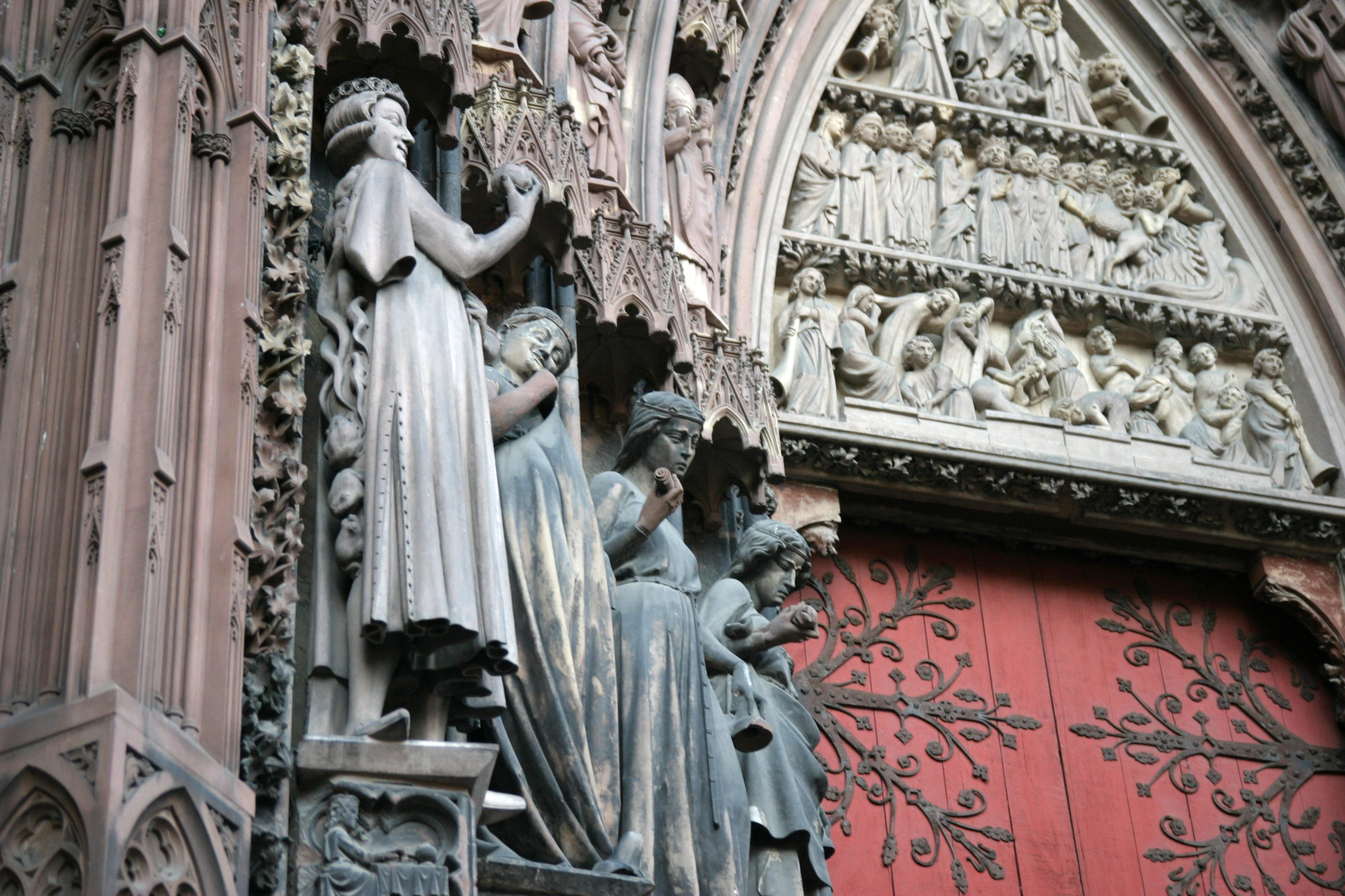 This image was taken at Strasbourg Cathedral, Strasbourg.